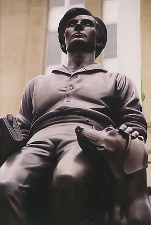 A picture of a statue or a detail of it used in an article about that statue